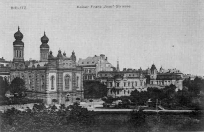 Bielsko-Biała: Synagogue and 3 Maja Street